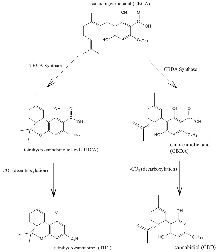 An image detailing the differences in reaction pathway for THC/CBD Taura, F., Sirikantaramas, S., Shoyama, Y., Yoshikai, K., Shoyama, Y., Morimoto, S. (2007). "Cannabidiolic-acid synthase, the chemotype-determining enzyme in the fiber-type Cannabis sativa". FEBS Letters 581 (16): 2929–2934.